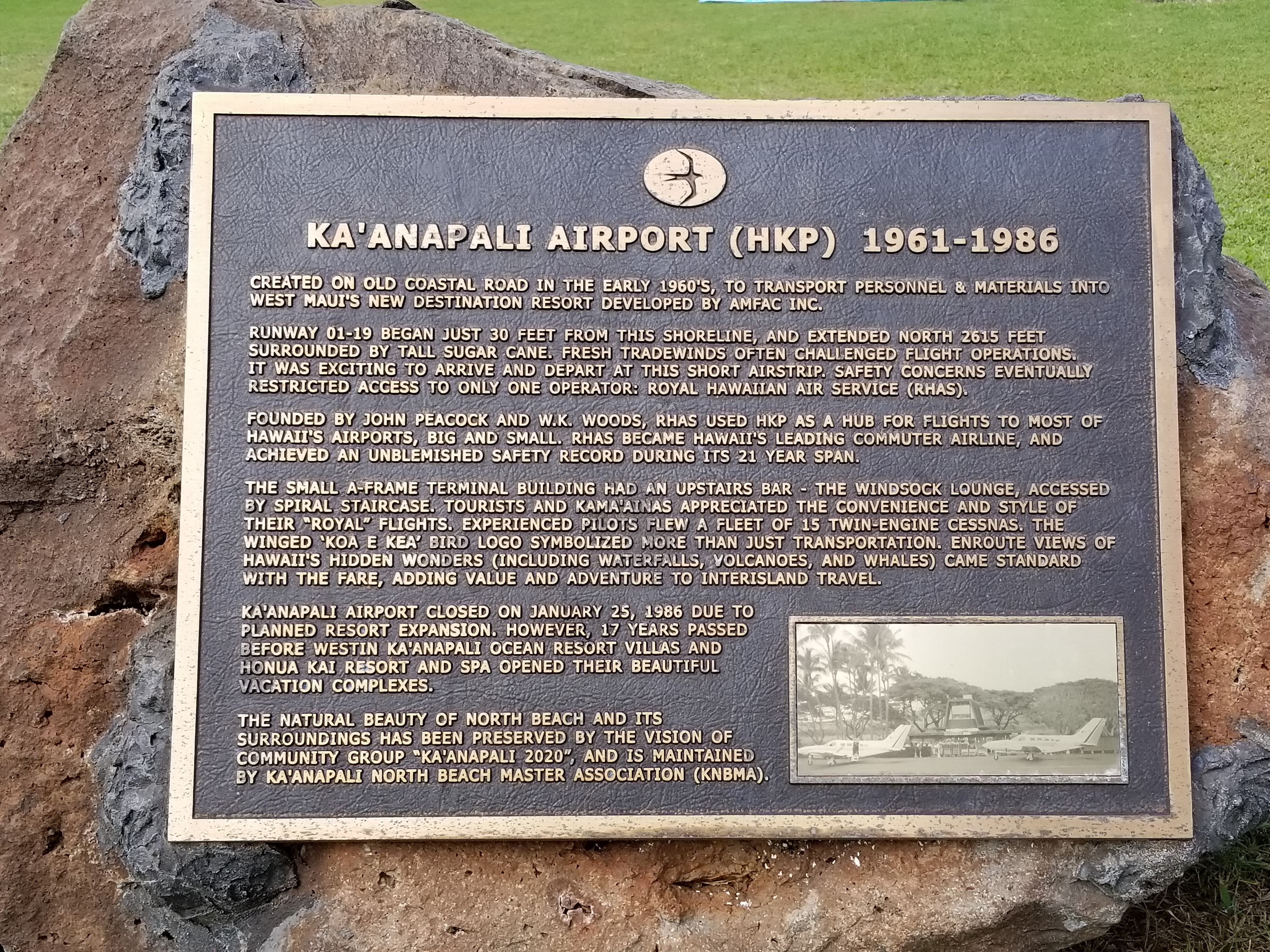 The plaque is located on the south side of Ka'anapali Beach.